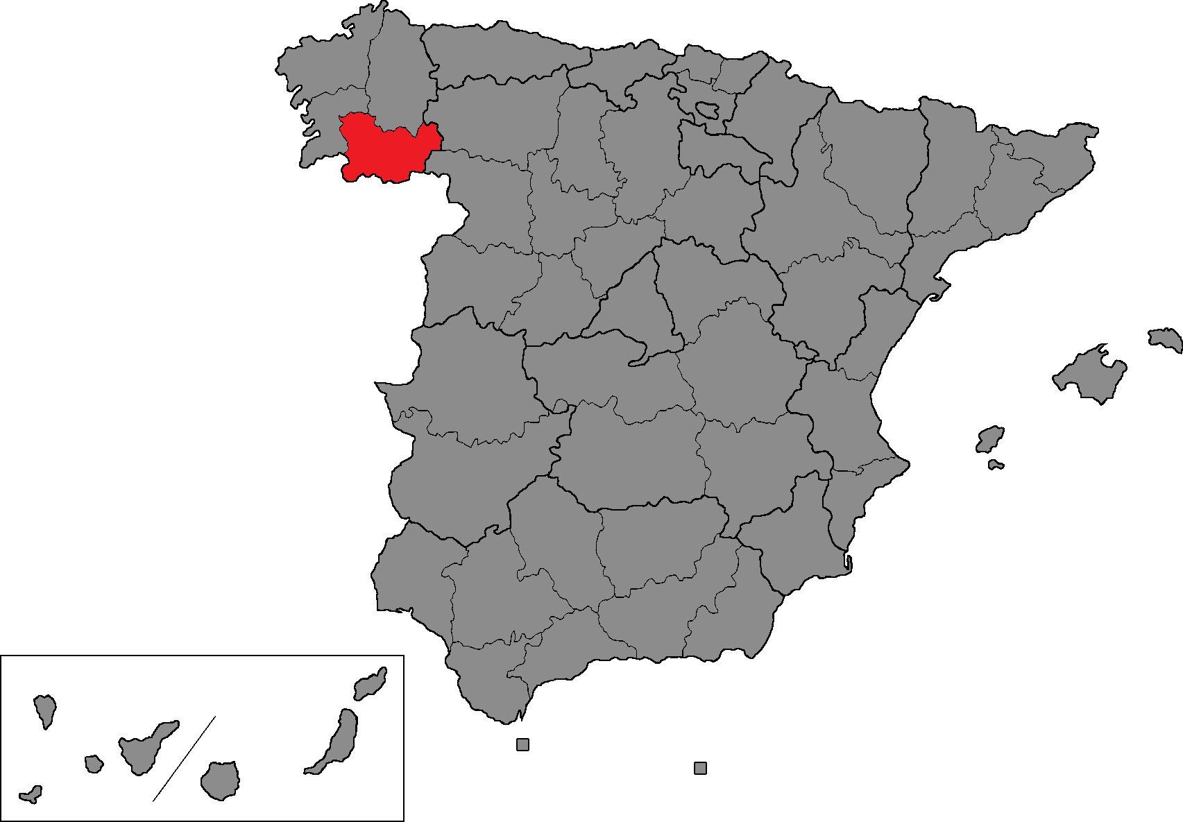 Spanish Congress of Deputies district of Ourense.